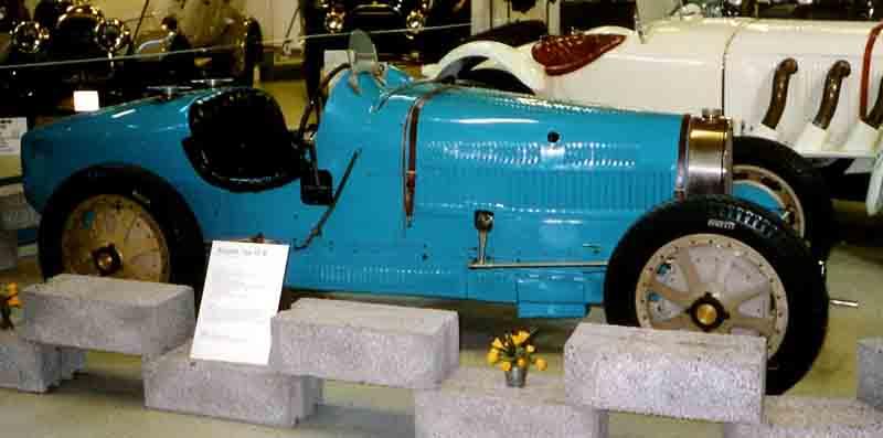 Bugatti Type 35B Grand Prix Racer 1929